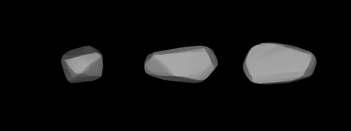 A three-dimensional model of 157 Dejanira that was computed using light curve inversion techniques.